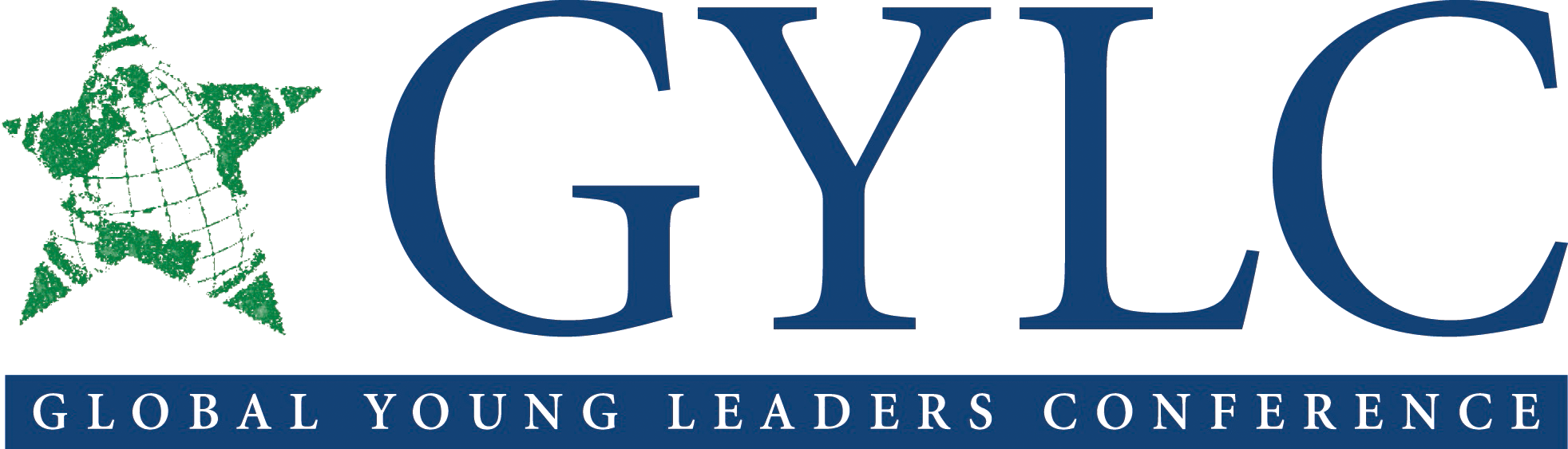 Logo of GYLC